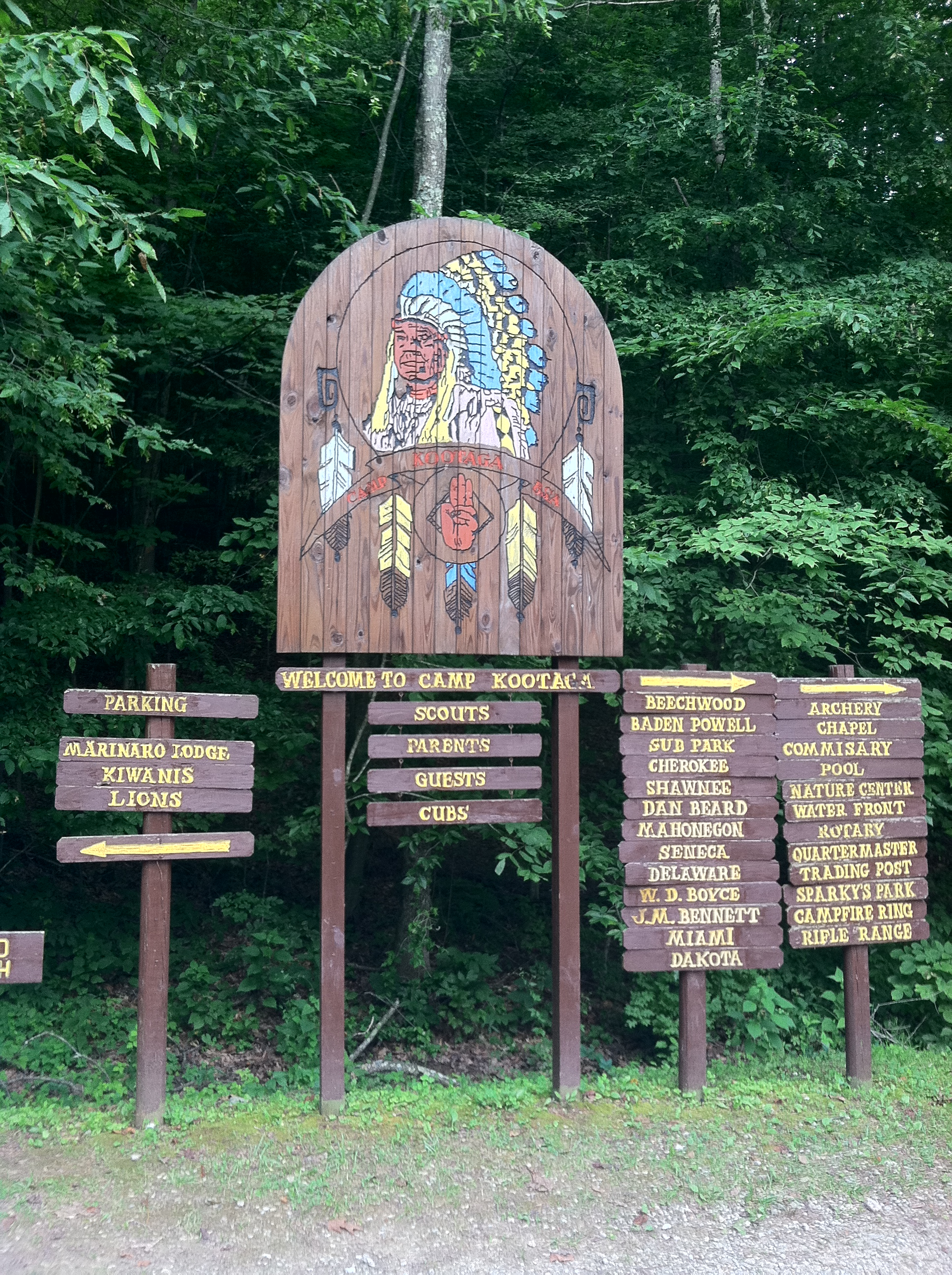 Sign located at the front gate of Camp Kootaga, Wirt County West Virginia.